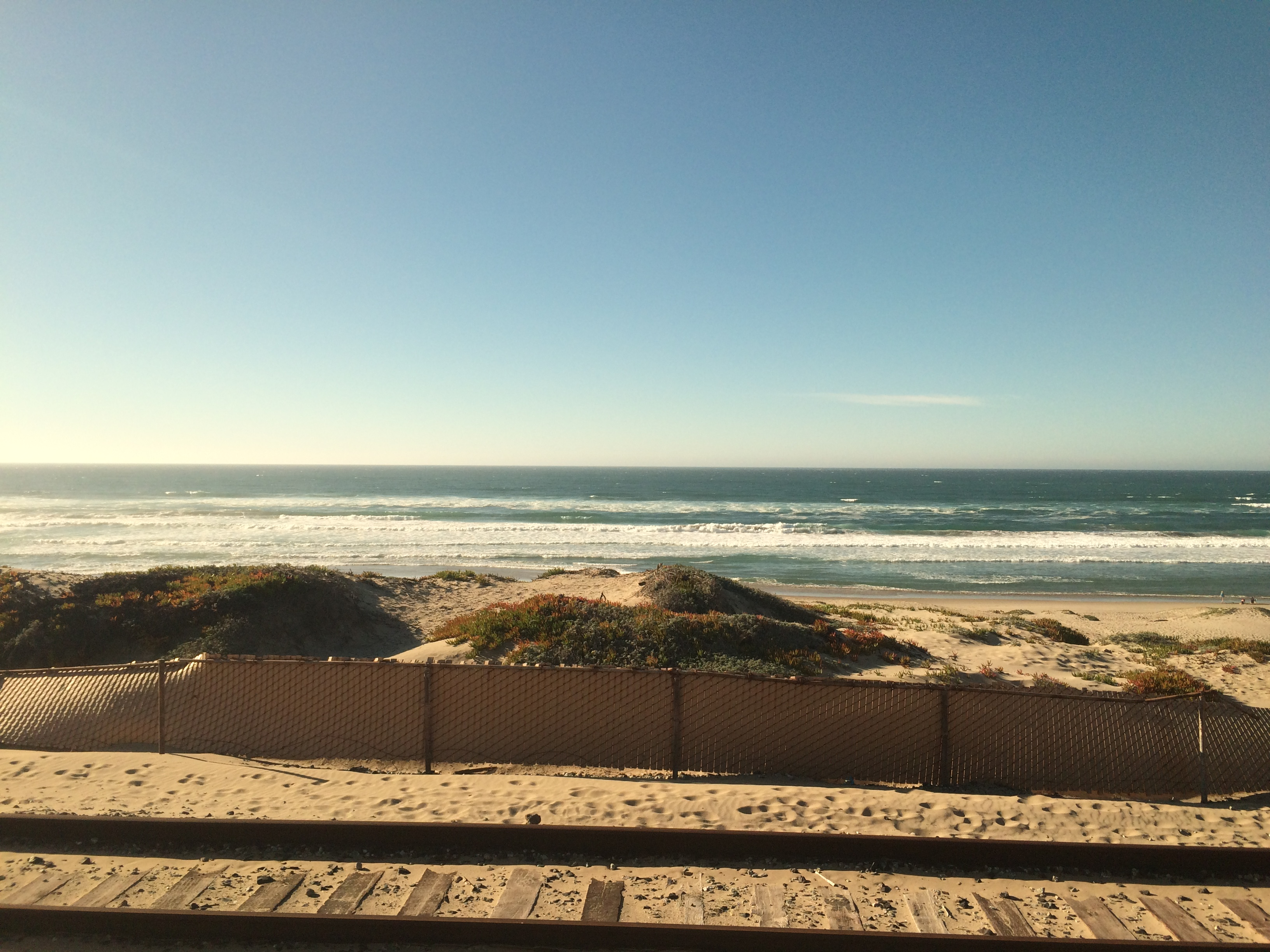 Surf Beach as seen from the Amtrak Pacific Surfliner, west of the city of Lompoc.